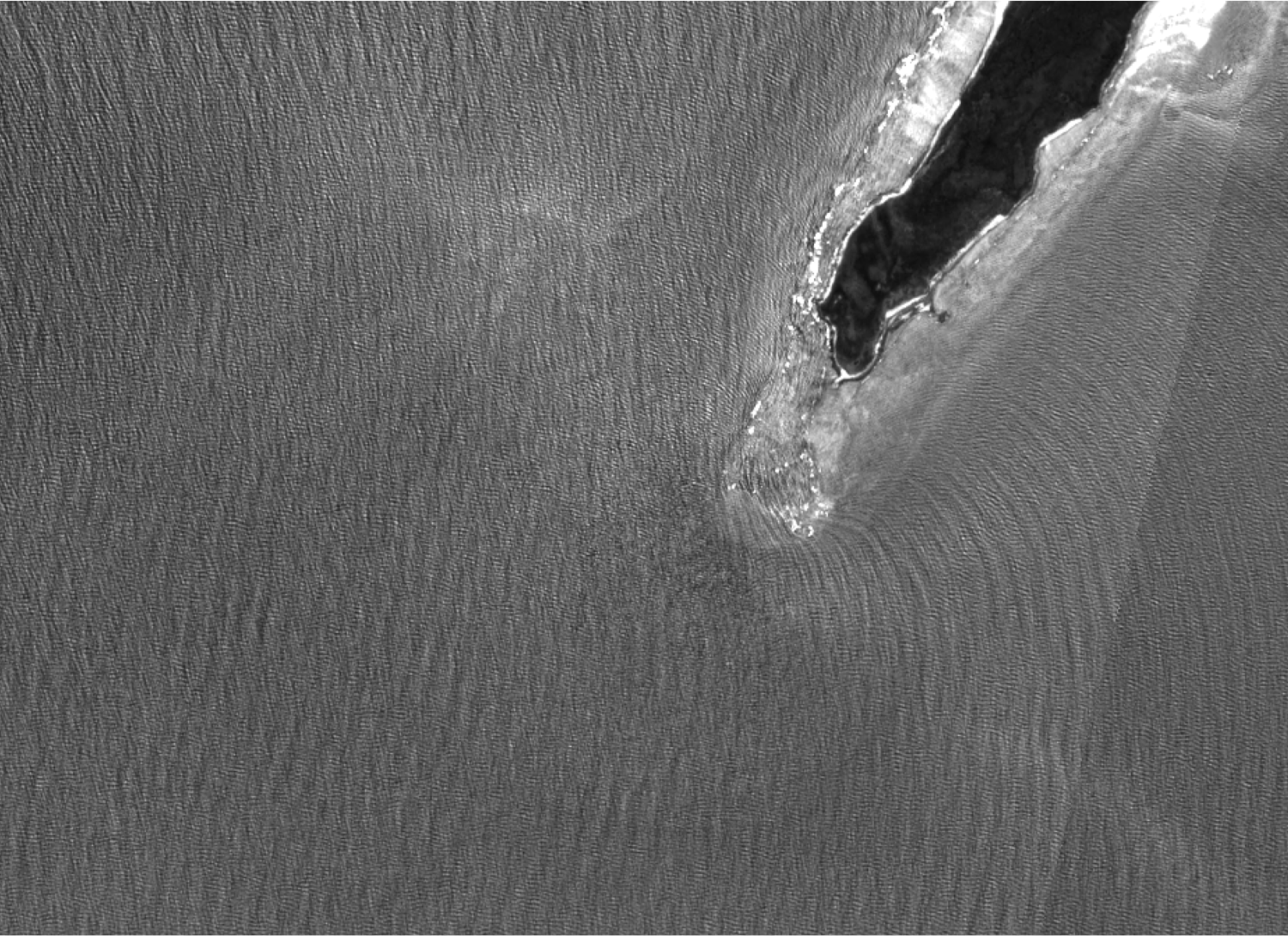 This image was taken by the Copernicus Sentinel-2 satellite on 1 October 2015. It shows how reflection of solar radiation by the sea surface reveals the complex patterns of waves as they interact with the coastline and seafloor off the tip Dorre Island, Western Australia.